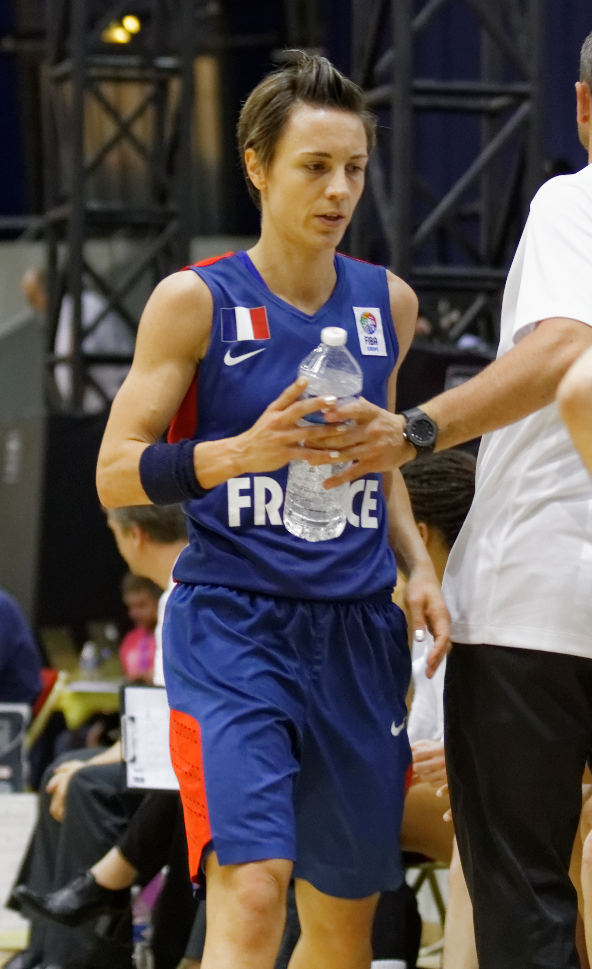 EuroEssonne, France - Canada, 7 June 2013.